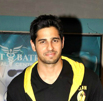 Sidharth Malhotra at a promotional event for 'Ek Villain', 2014.